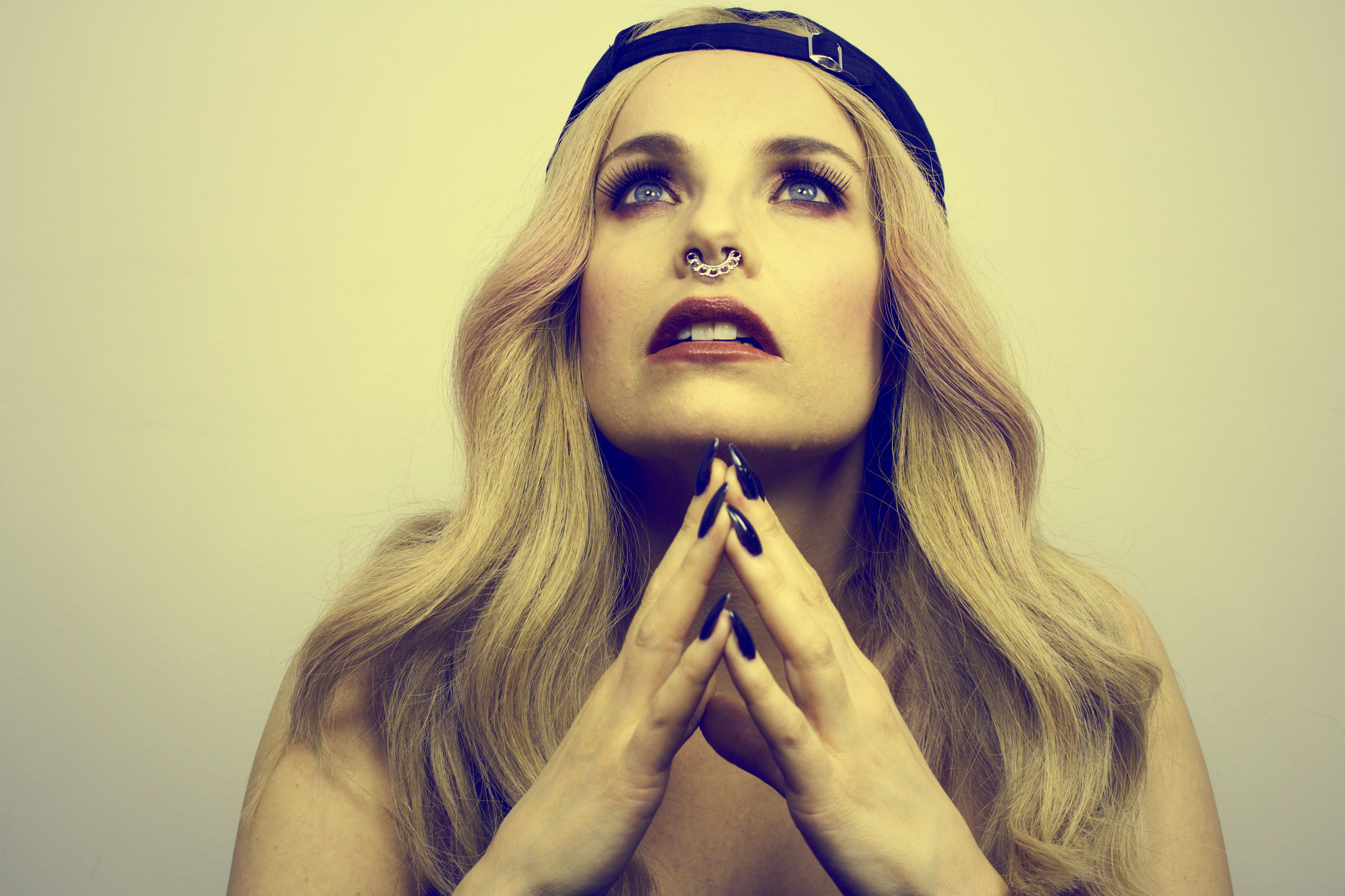 Shanta Liora. Singer, songwriter!